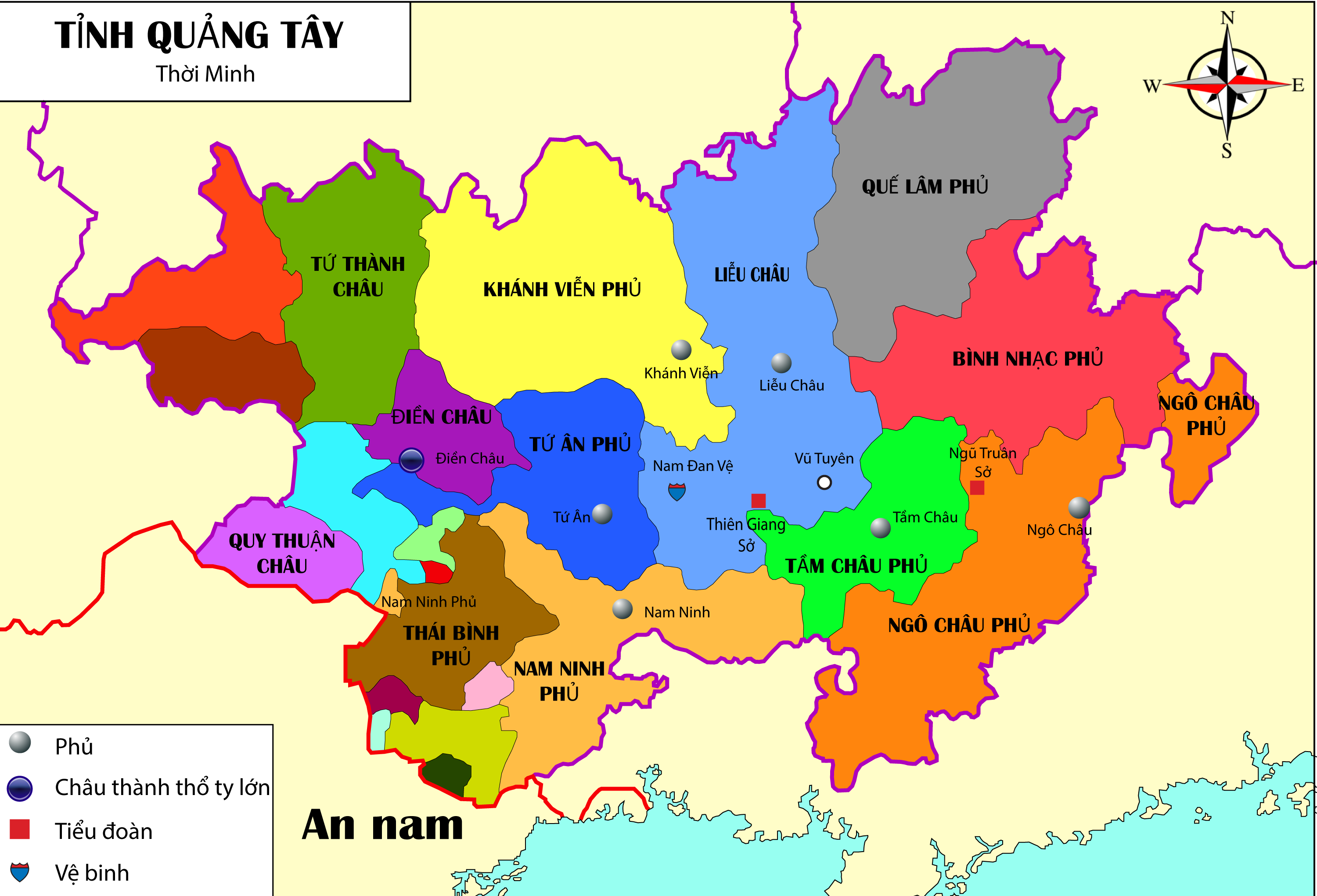 Map of Guangxi province in the early 16th century, based on George L. Israel's map. Sources: Doing Good and Ridding Evil in Ming China: The Political Career of Wang Yangming. BRILL (2014), p. 243. ISBN 9004280103. [1] and Guangxi province map during the Ming dynasty [2] (scroll down and click on Chinese characters 广西). Its English version can be found here File:Guangximap03.png.